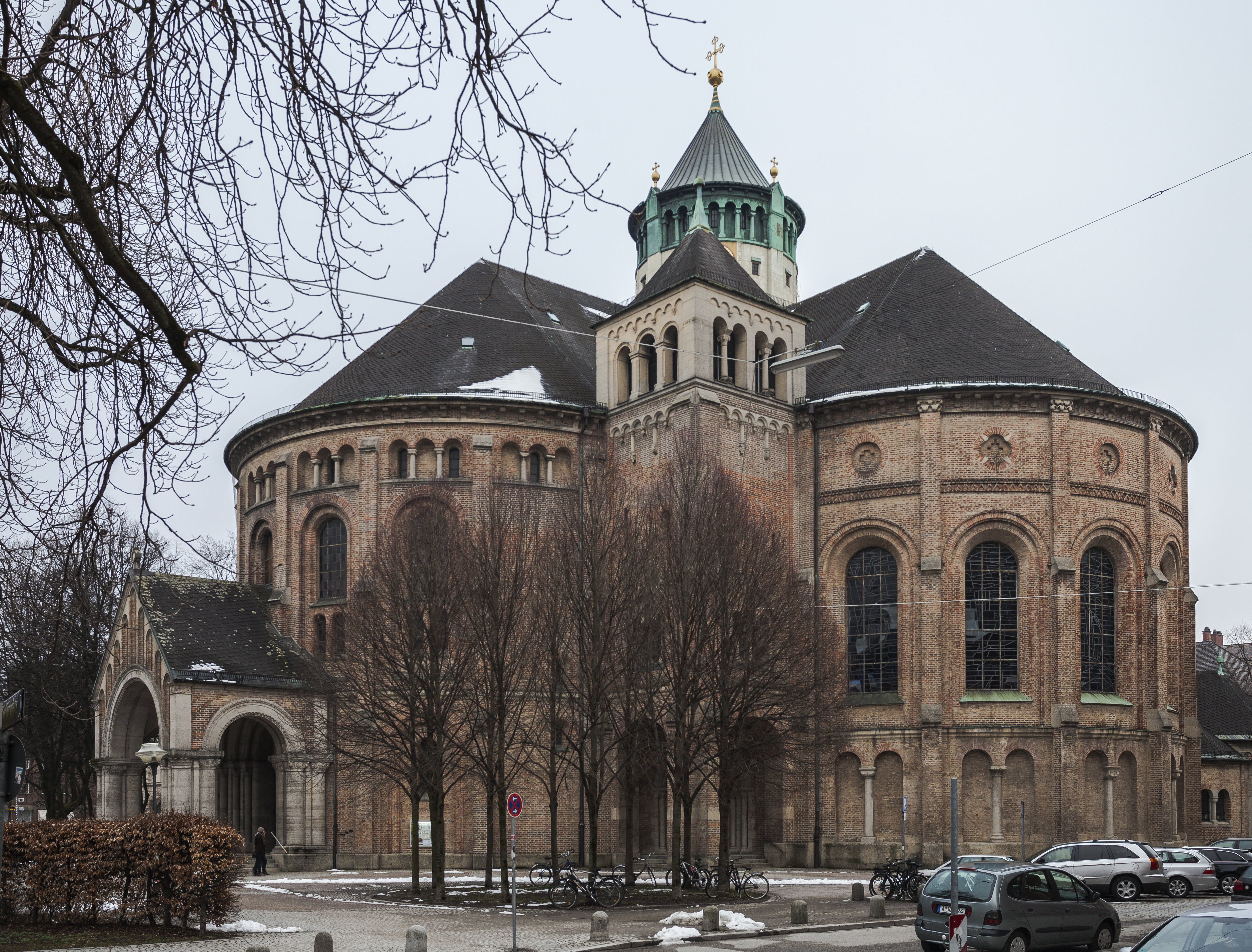 St. Rupert church, Munich, Germany